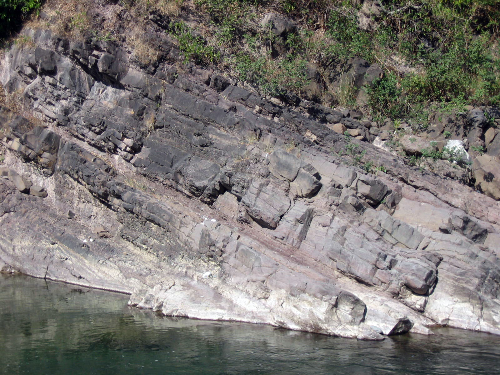 Field photo of the Dagshai formation exposed in the town of Palampur, North India. Field photo courtesy of Dr. Peter Clift, LSU Geology and Geophysics